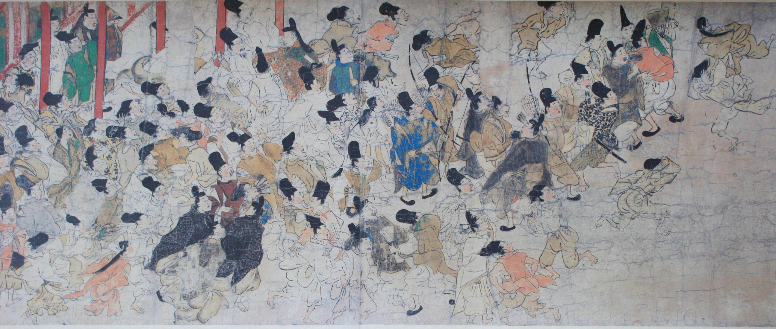 A part of 1st scroll of Ban Dainagon Ekotoba , IDEMITSU MUSEUM, TOKYO